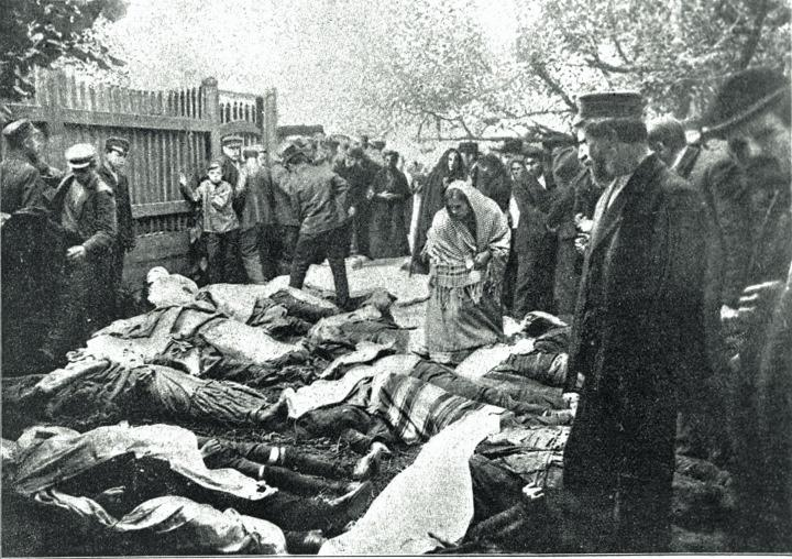 Les cadavres des tués au cours du pogrom de 1906 dans la cour de l'Hôpital juif de Bialystok. The corpses of the Jews killed durint the 1906 pogrom of Bialystok are laid down in the yard of the Jewish hospital